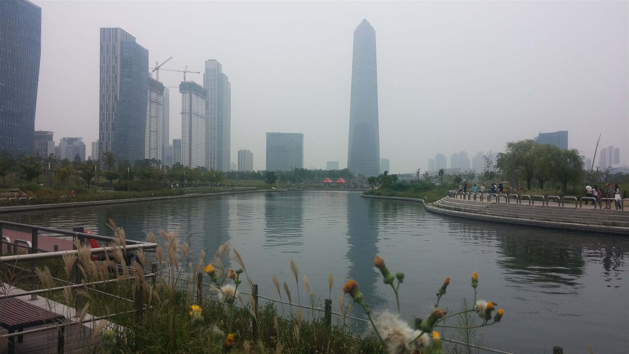 A view of the Convensia and the Central Park lake in Songdo IBD, Incheon, South Korea